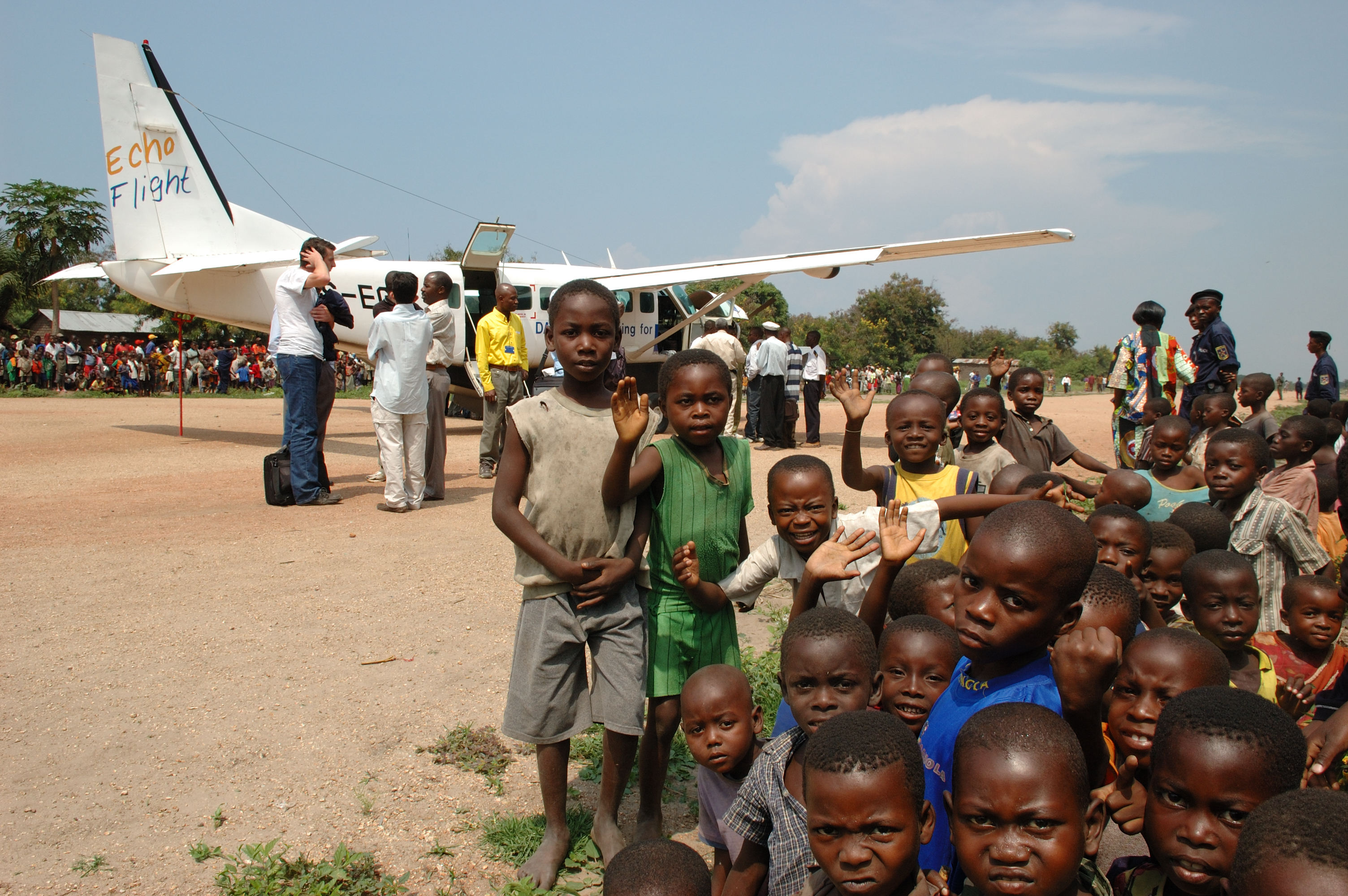 The dirt strip in Baraka is in the middle of the town. ACTED had just finished rehabilitating the strip and according to some we were the first passengers to alight since 1998 or before the peak of the war. A huge mass of onlookers surrounded the strip. I was later told that many thought the plane was to crash and were curious as to what might happen. The strip will be agreat benefit to the organisations and the government as it avoids an 8 hour drive from the provincial capital in Bukavu.